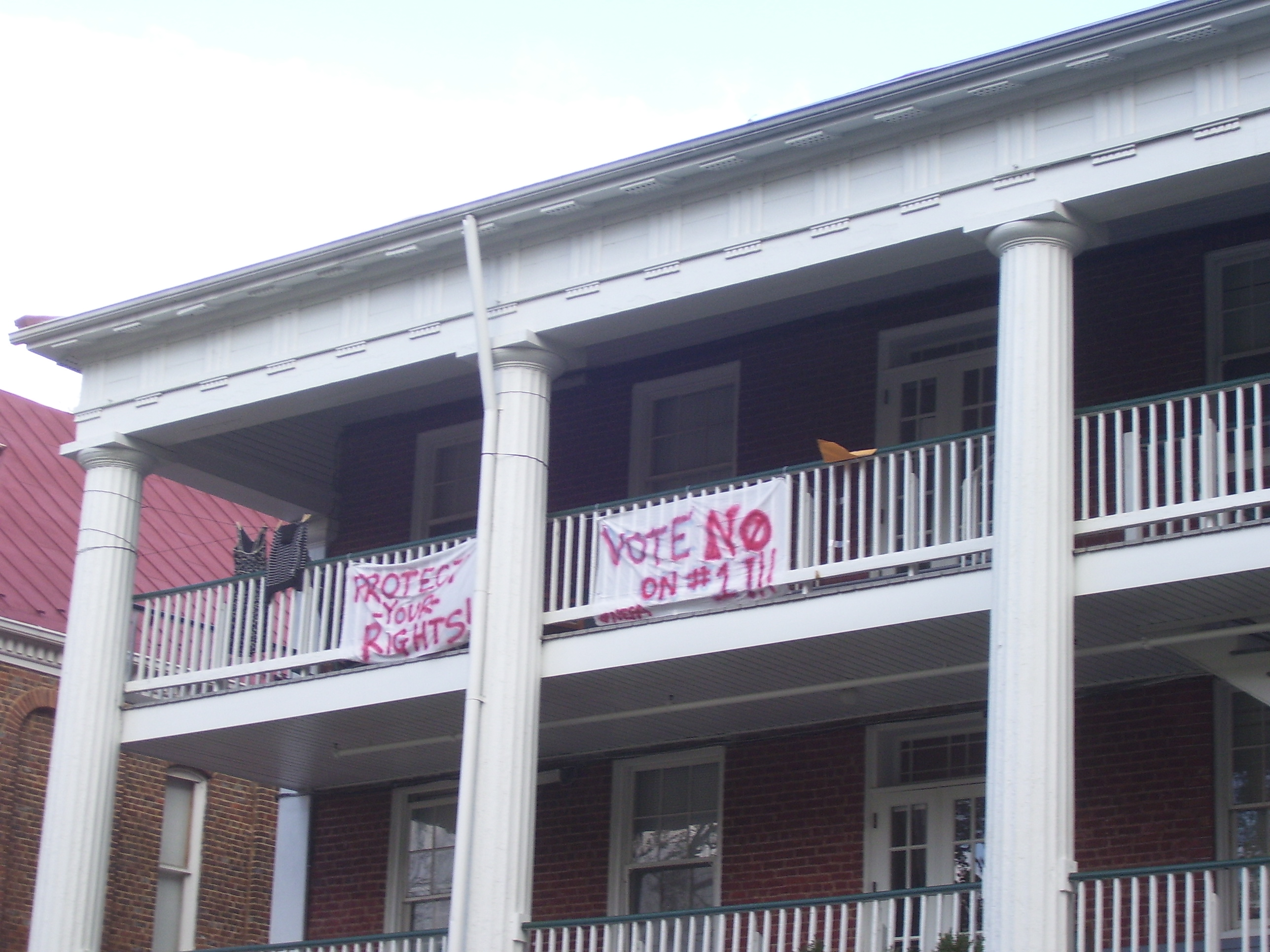 A view of the near end of the East dormitory at Hollins University, known as Near East Fine Arts, from front quad. I took this in the fall of 2006.